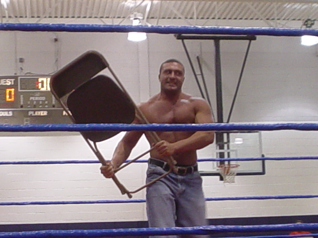 Professional wrestler Mike Kruel holding a steel chair at an NWA Cyberspace show in May 2005.